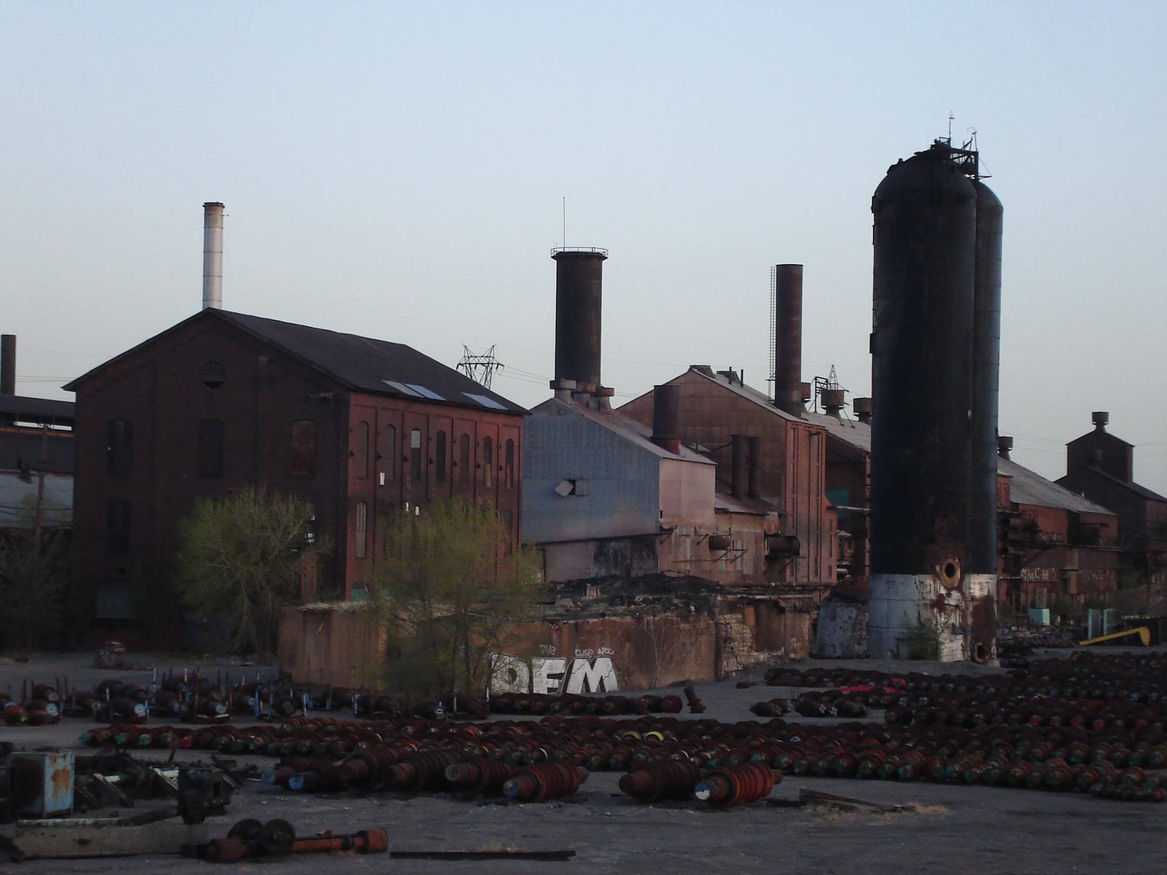 The foundation and remaining stoves of A-Furnace at the CF&I Steel Mill in Pueblo, Colorado from the Northern Avenue bridge. Photo was taken 4/17/06 at 6:23PM.